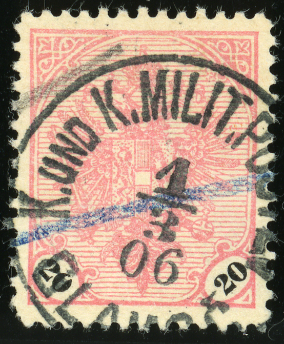 Bosnia-Herzegovina stamp, 20 heller issue 1901, cancelled at Glamoč in 1906 (Austria-Hungary administration).